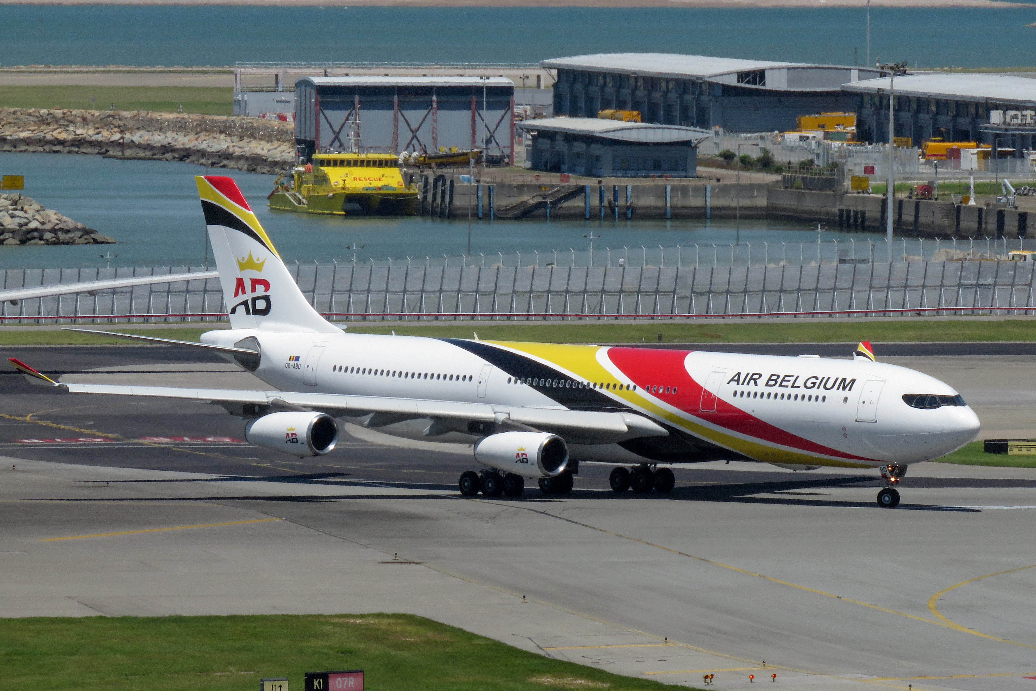 Air Belgium 852 to Charleroi (Brussels South).